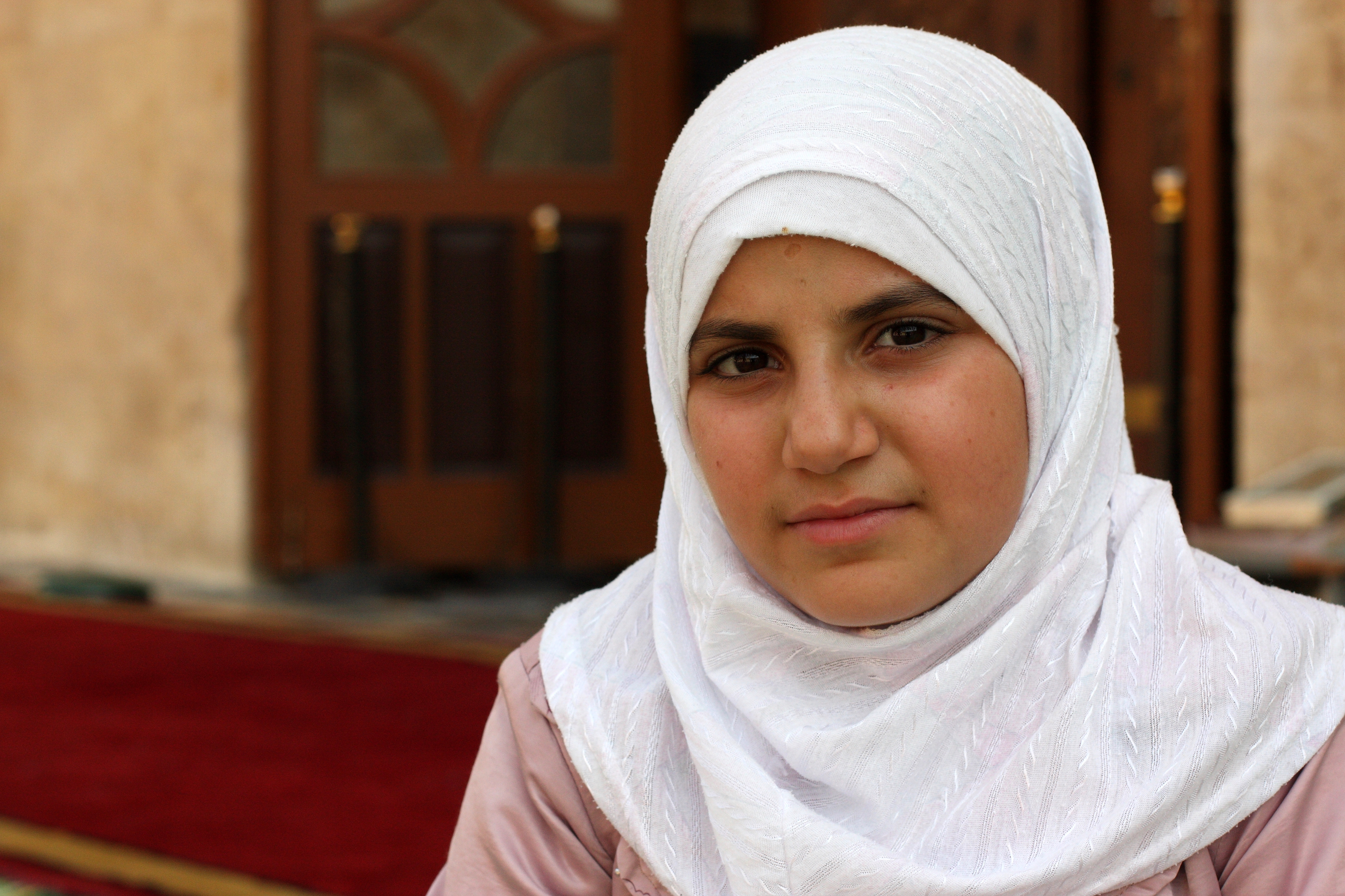 University student, Damascus, Syria